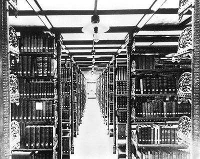 These are the stacks at the Pequot Library.